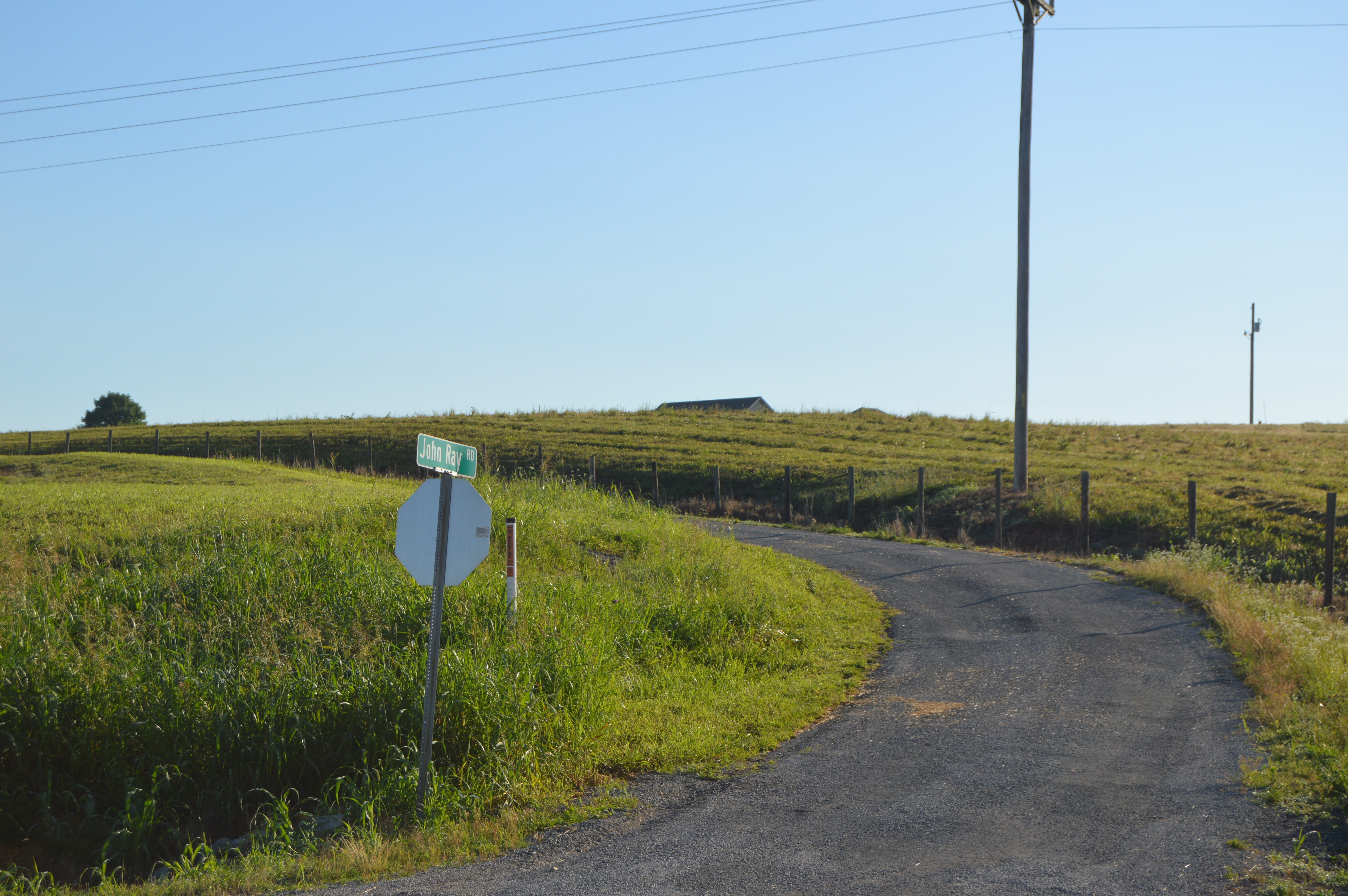 Looking up the driveway (apparently a private drive, despite the signage) to the Stockton-Ray House from U.S. Route 68/Kentucky Route 80 just west of Edmonton in Metcalfe County, Kentucky, United States. The house is listed on the National Register of Historic Places.